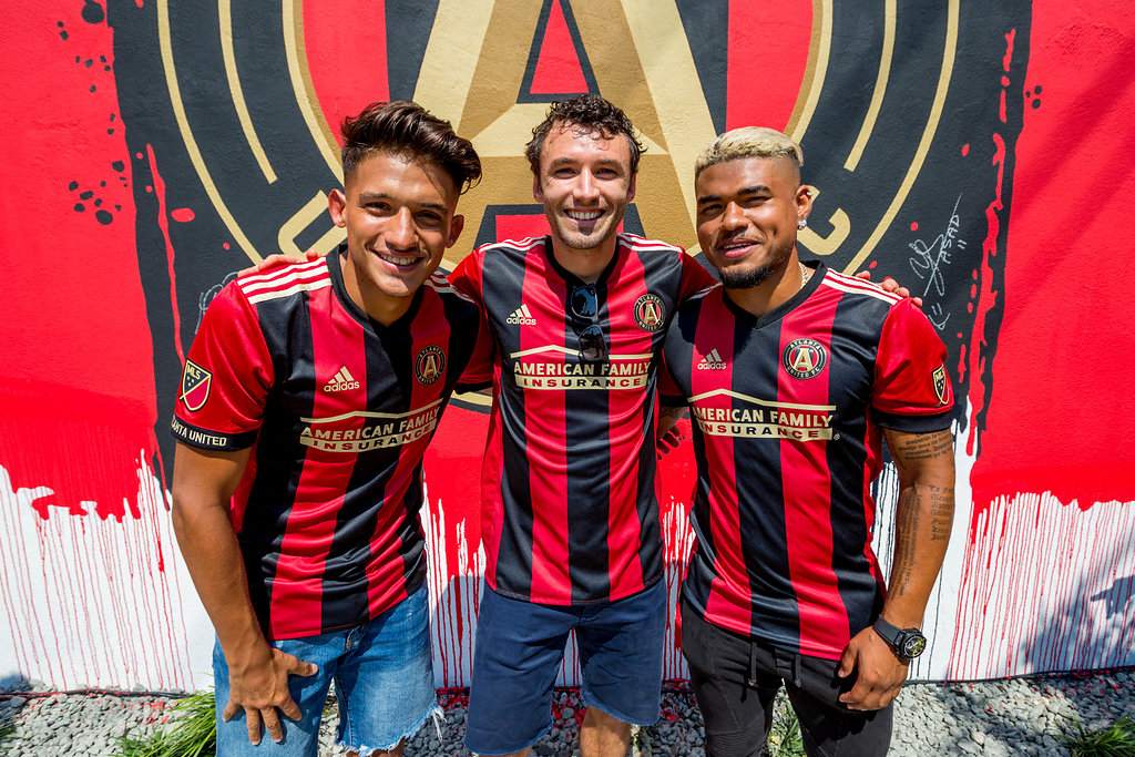 During the Delta and Atlanta United Wallscape Unveiling in Decatur, Georgia, Monday, August 21, 2017